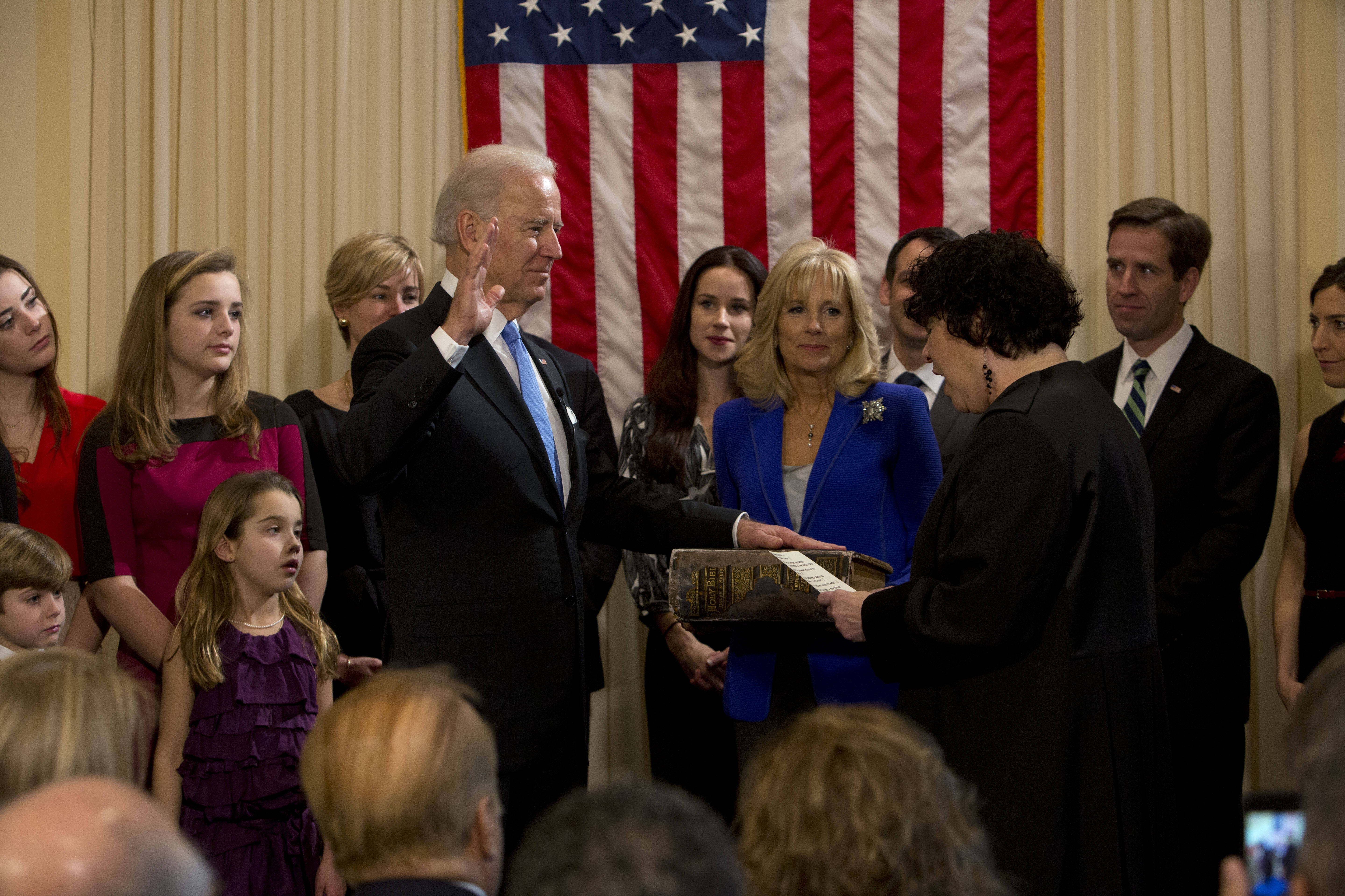 Supreme Court Justice Sonia Sotomayor administers the oath of office to Vice President Joe Biden during the official swearing-in ceremony at the Naval Observatory Residence in Washington D.C. on 20 January 2013. Dr. Jill Biden holds the Biden family Bible. Also pictured, from left, are: Maisy Biden, Hunter Biden, Naomi Biden, Finnegan Biden, Natalie Biden, Kathleen Biden, Hunter Biden, Ashley Biden, Howard Krein, Beau Biden and Hallie Biden.